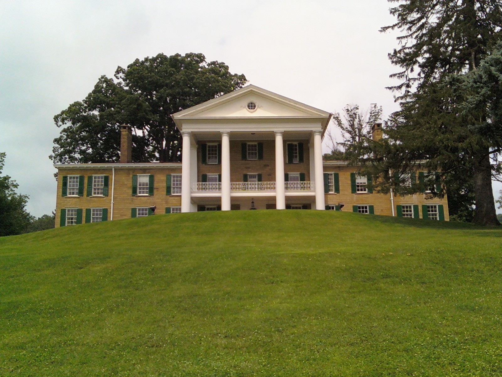 A view of the Bryn Du Mansion in Granville, Ohio, United States, seen from the Great Front Lawn